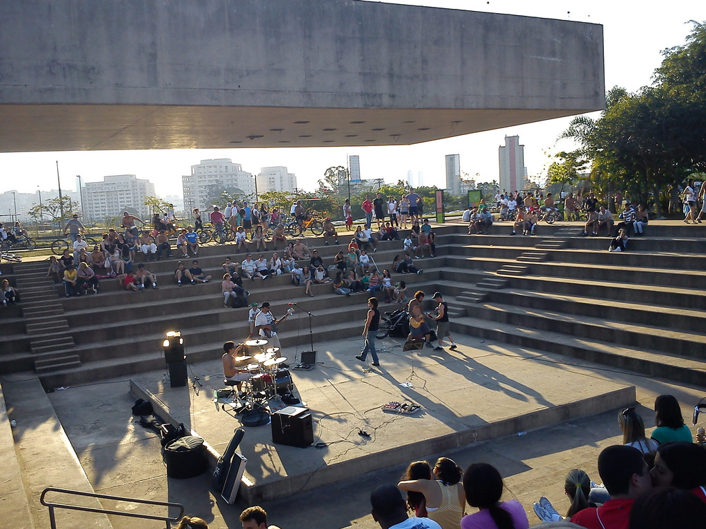 Musical island inside Villa Lobos Park